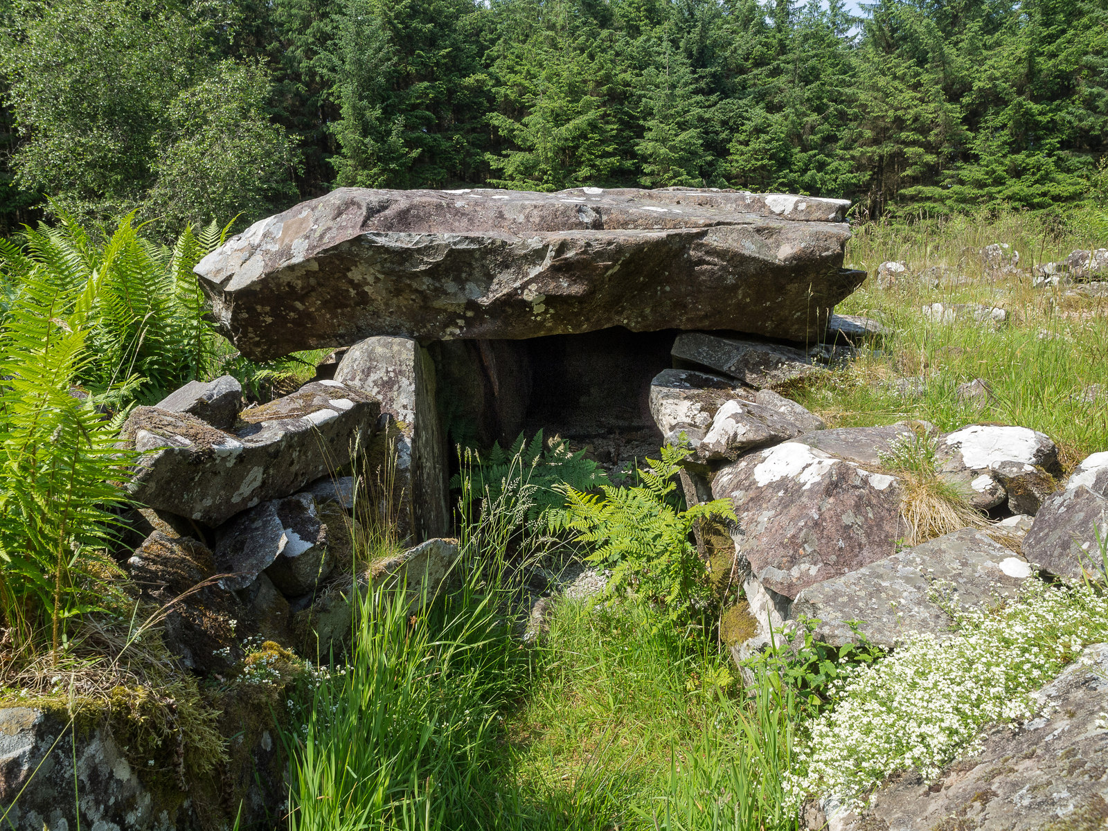 White Cairn. This small neolithic chambered cairn was excavated in 1949 and subsequently gave its name to a sub-group of passage graves in which the burial chamber and the passage form a single undifferentiated unit - the Bargrennan group, found only in south-west Scotland. Cremated bones and sherds of neolithic pottery were found in the passage. Further excavations were carried out in 2004 and 2005, and a burial cist and pot, as well as a separate early bronze age burial pot and other artefacts were discovered on either side of the passageway. Late mesolithic flints were also discovered around the edge of the cairn, suggesting human activity at the site over thousands of years of prehistory.